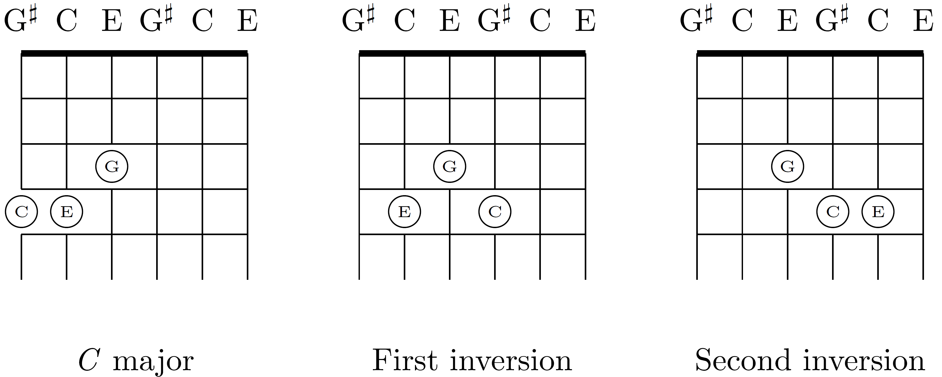 A six-string guitar is tuned in major-thirds tuning, with each note labeled above the string. Three diagrams in a row illustrate chord inversion in major-thirds tuning: The original C-major chord, the first inversion, and the second inversion. In each inversion, when 1-2 notes are increased one octave (three strings), the note is played on the same fret.